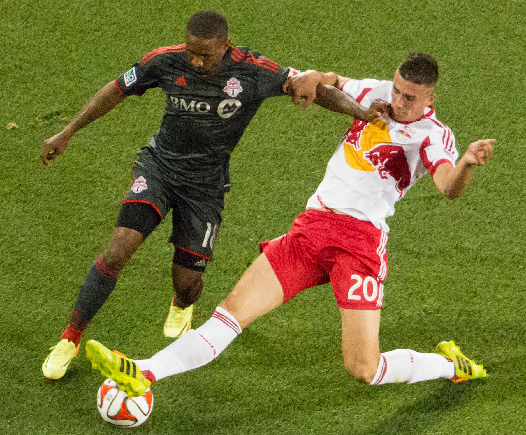 Matt Miazga defends Jermain Defoe